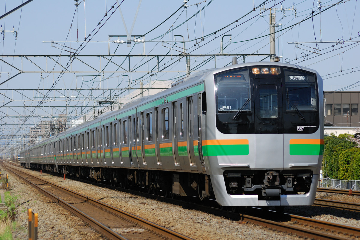 JR East E217 series (F Trains, 10+5 set), taken between Fujisawa and Tsujidō